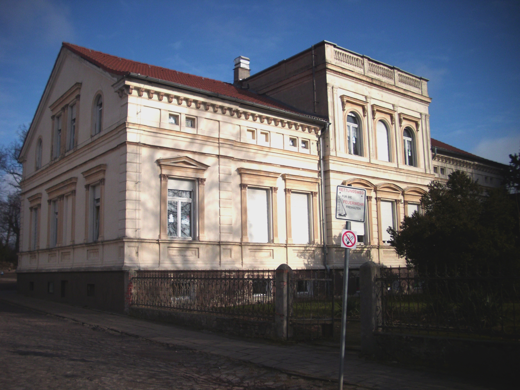 Primary School Astrid Lindgren in Gutenswegen.